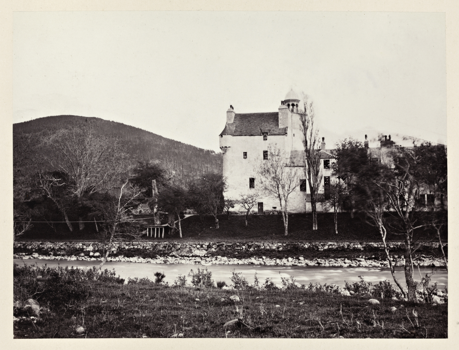 Tittel / Title: s. 7 Abergeldie Motiv / Motif: Albuminkopi. Abergeldie Castle, bygget ca 1550. Dato / Date: 1869 Fotograf / Photographer: Edward Backhouse Mounsey (1840-1911) Sted / Place: Skottland, Aberdeenshire, Crathie Eier / Owner Institution: Nasjonalbiblioteket / National Library of Norway Lenke / Link: Bildesignatur / Image Number: bldsa_Alb_BH010